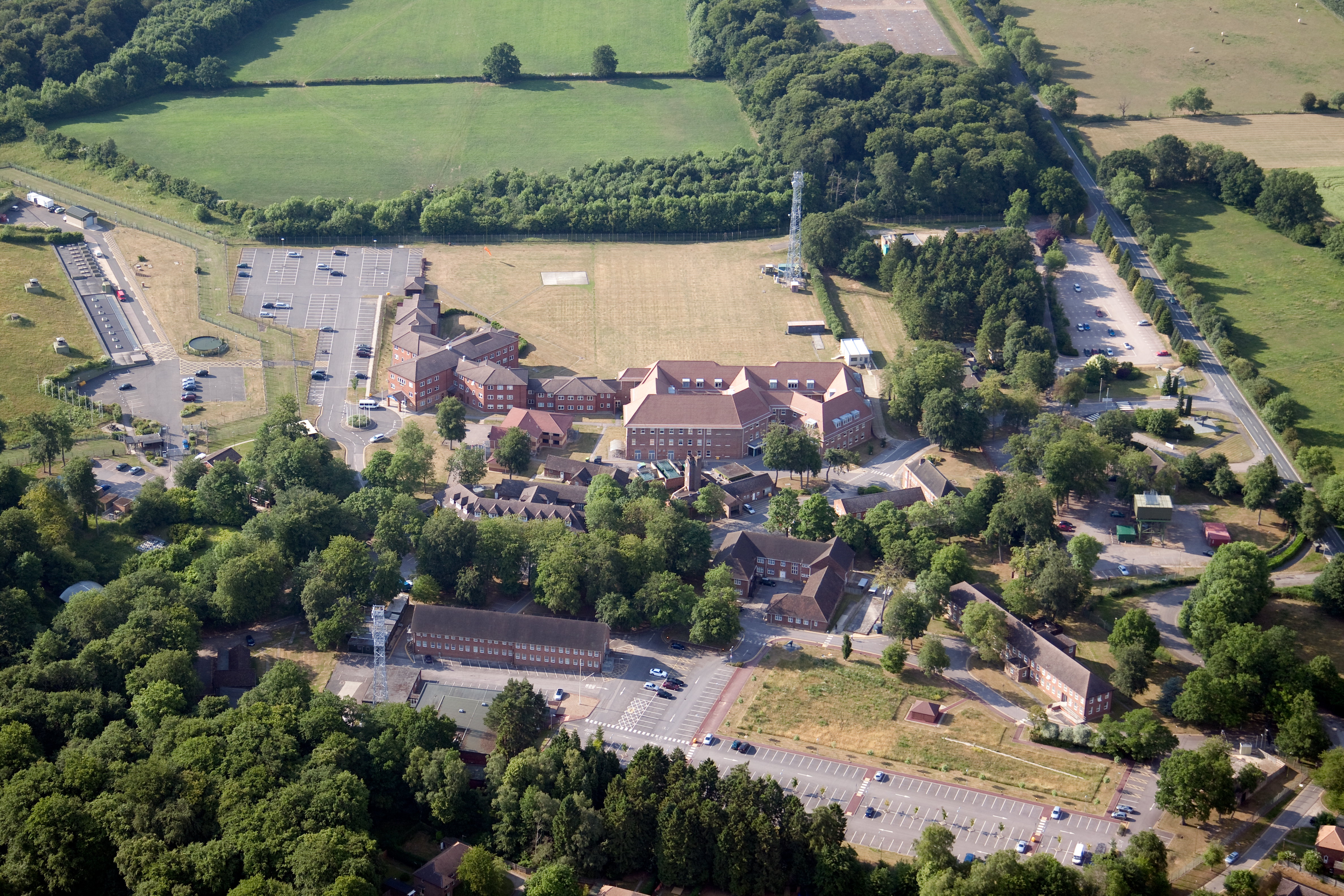 RAF High Wycombe 2937